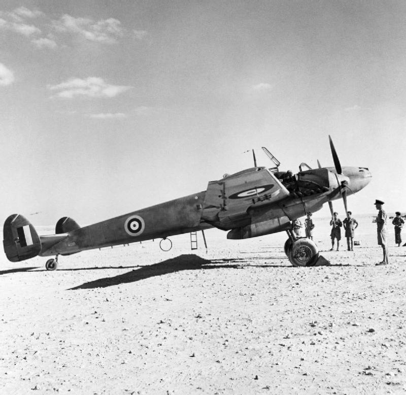 Royal Air Force Operations in the Middle East and North Africa, 1939-1943. Captured Messerschmitt Bf 110D "The Belle of Berlin" in British markings on a landing ground in North Africa. This aircraft served with II/ZG76 in Iraq and was captured after crash-landing near Mosul in May 1941. It was used as a communications aircraft and later as a unit 'hack' by No.267 Squadron RAF.